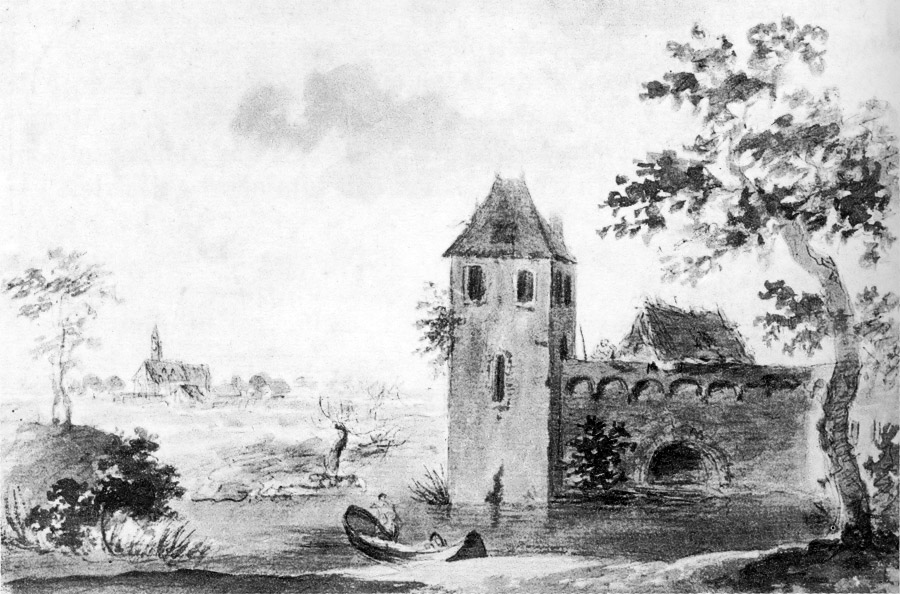 Frankfurt on the Main: the Kuehhornshof, ink drawing; on the righthand border: „Dessin de Goethe fait dans la chambre de ma mère quand il avait 26 ans. Bettine.“